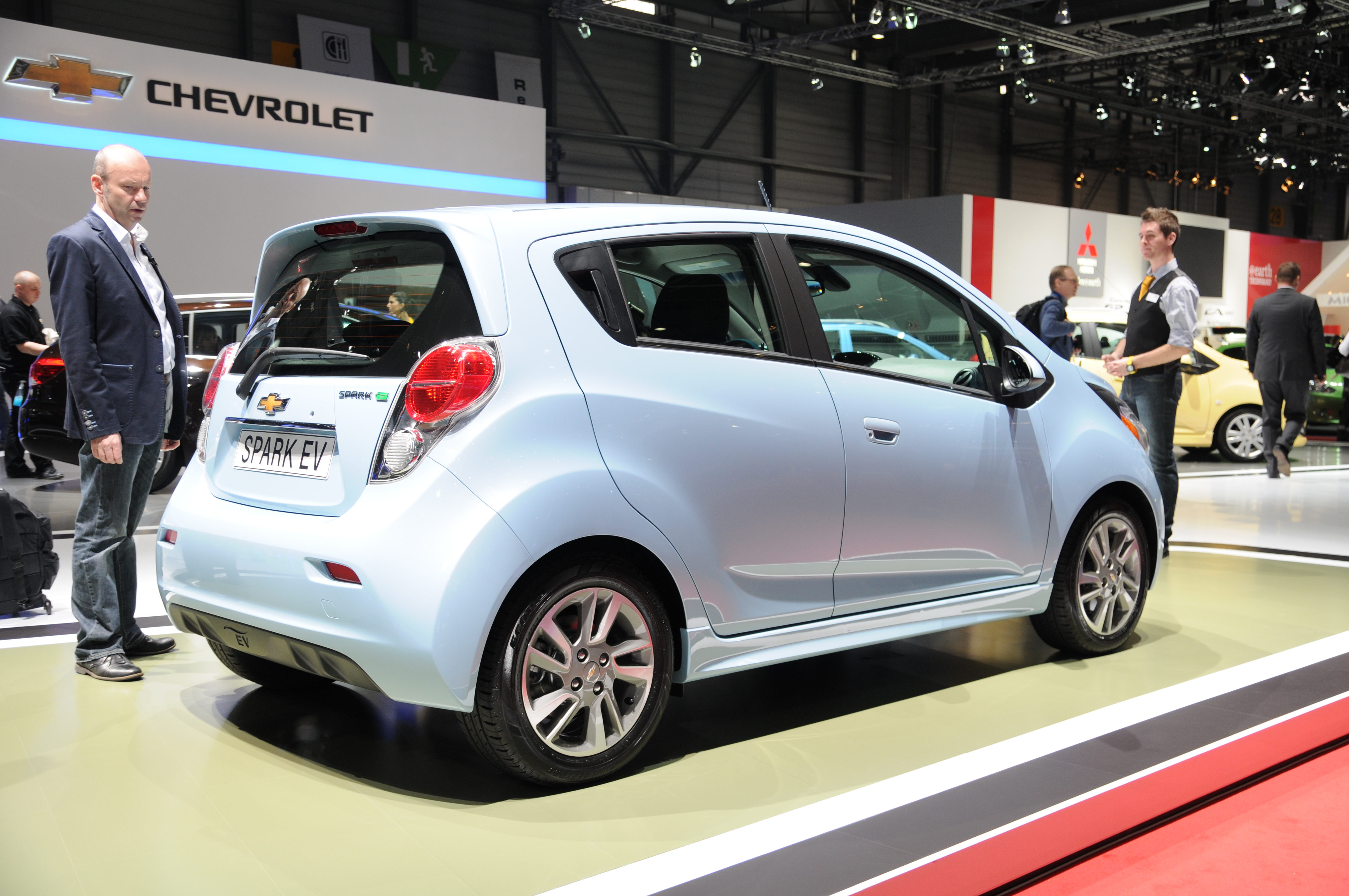 Production version of the Chevrolet Spark EV exhibited at the Geneva Motor Show 2013 (photos taken on the first press day)